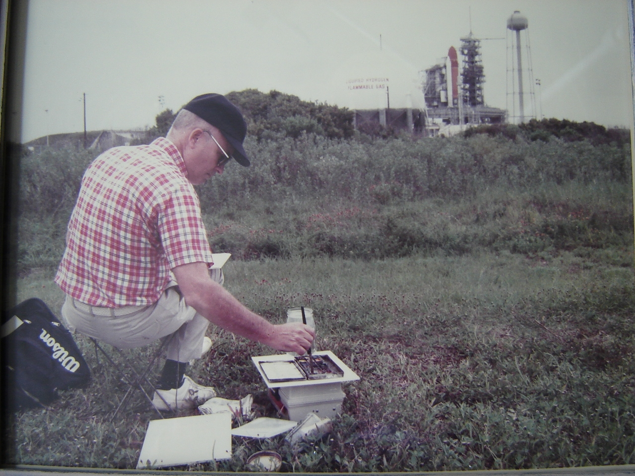 Philip Jamison painting in Watercolor, launch of space shuttle for NASA. Photo from family photo album.